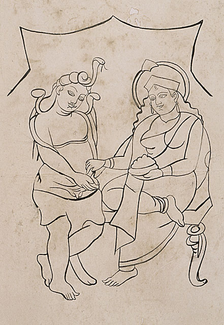 "India, West Bengal, Kolkata (Calcutta), Kalighat, South Asia Annapurna Dispensing Food to Shiva, circa 1900 Drawing, Ink on paper, 14 x 9 1/2 in. (35.56 x 24.13 cm) Purchased with funds provided by Punita Khanna and the Southern Asian Art Council (AC1998.53.1)"